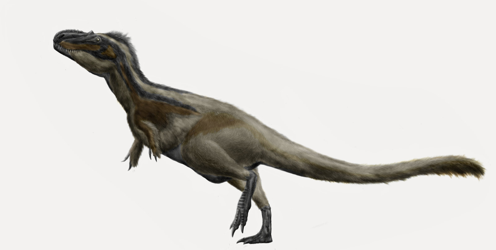 Illustration of the tyrannosaurid Daspletosaurus torosus casually sniffing around.